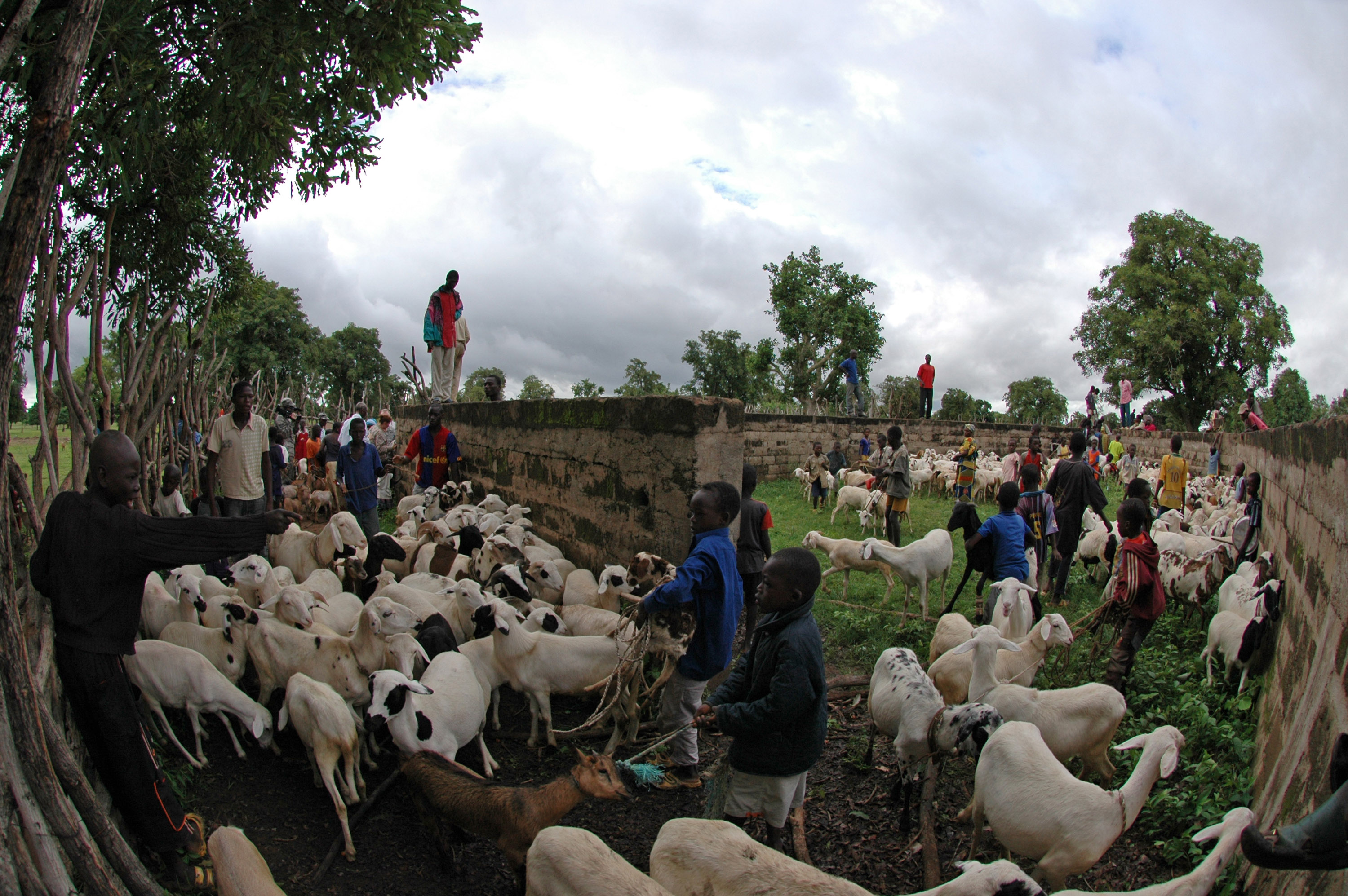 BAMAKO, Mali - Malian herders funnel sheep and goats into a corral to be seen by U.S. veterinarians July 21, 2008 in a village outside of Bamako, Mali. More than 4,000 sheep were dewormed and vaccinated as part of a medical training exercise designed to enhance medical capabilities and readiness for U.S. and African forces. (U.S. Air Force photo by Senior Airman Justin Weaver) AFRICOM Photo ID 20080819140525